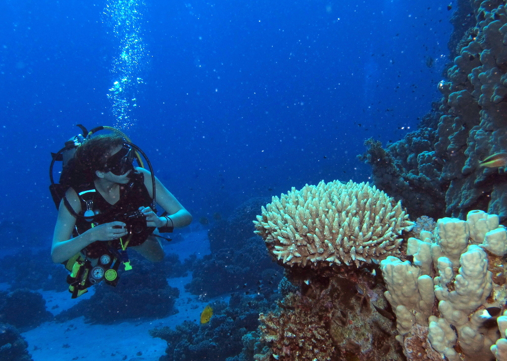 Photographing coral at Gota Abu Ramada, Red Sea, Egypt #SCUBA